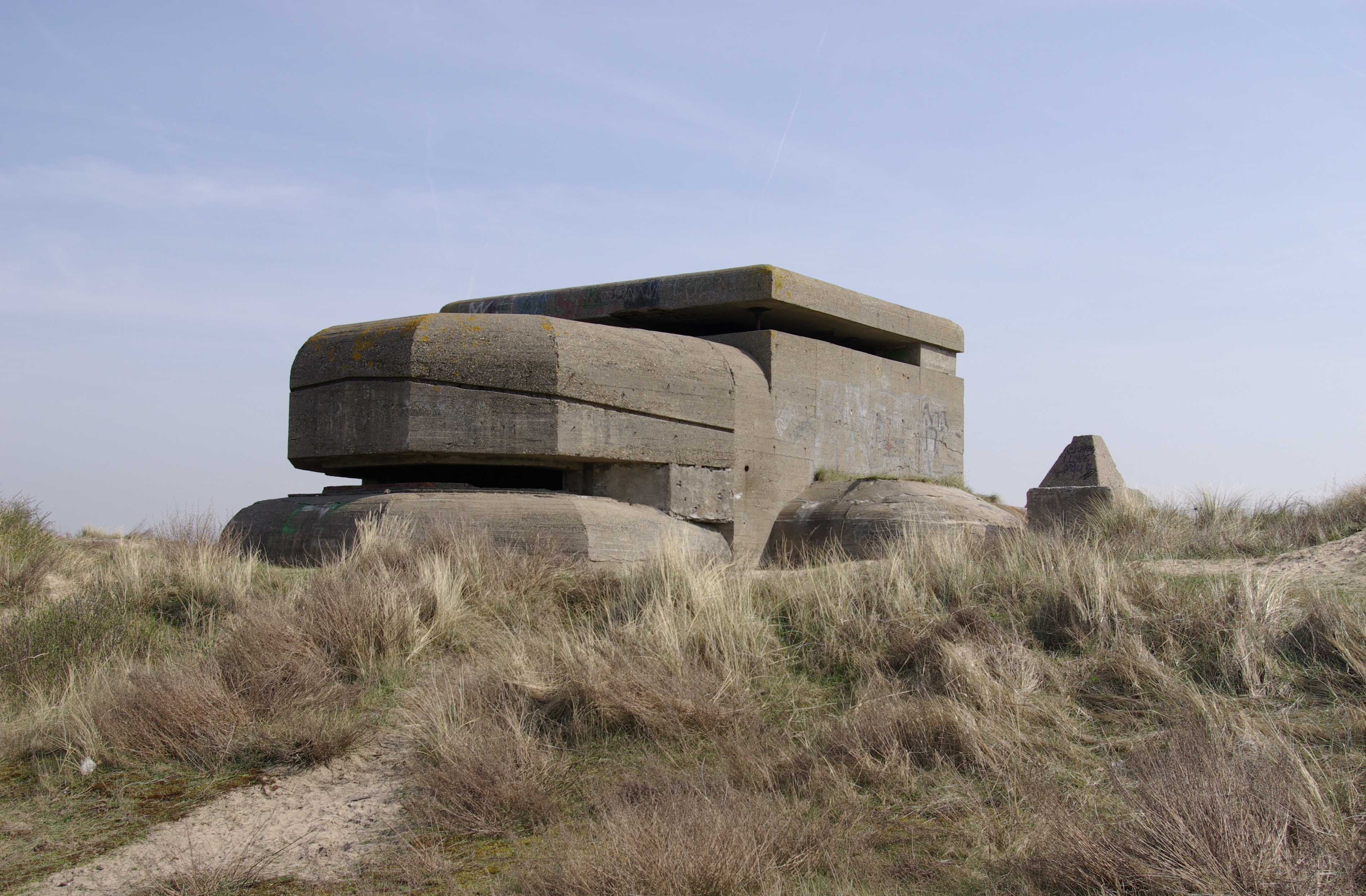 Atlantic Wall, IJmuiden, M.K.B. Heerenduin (Coastal Battery Heerenduin), W.N. 81 (Widerstandsnest 81), fire control post, type M 178